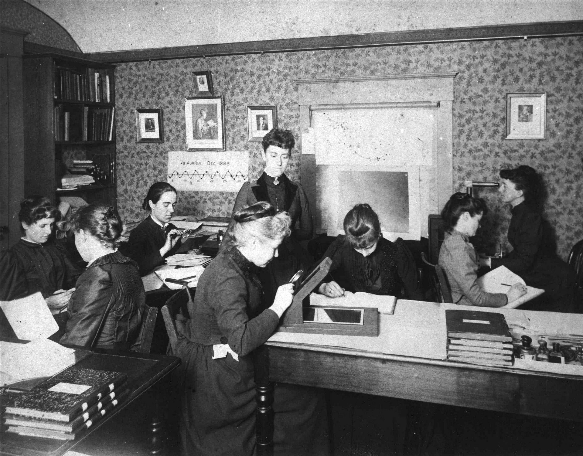 "Pickering's Harem," so-called, for the group of women computers at the Harvard College Observatory, who worked for the astronomer Edward Charles Pickering. The group included Harvard computer and astronomer Henrietta Swan Leavitt (1868–1921), Annie Jump Cannon (1863–1941), Williamina Fleming (1857–1911), and Antonia Maury (1866–1952).